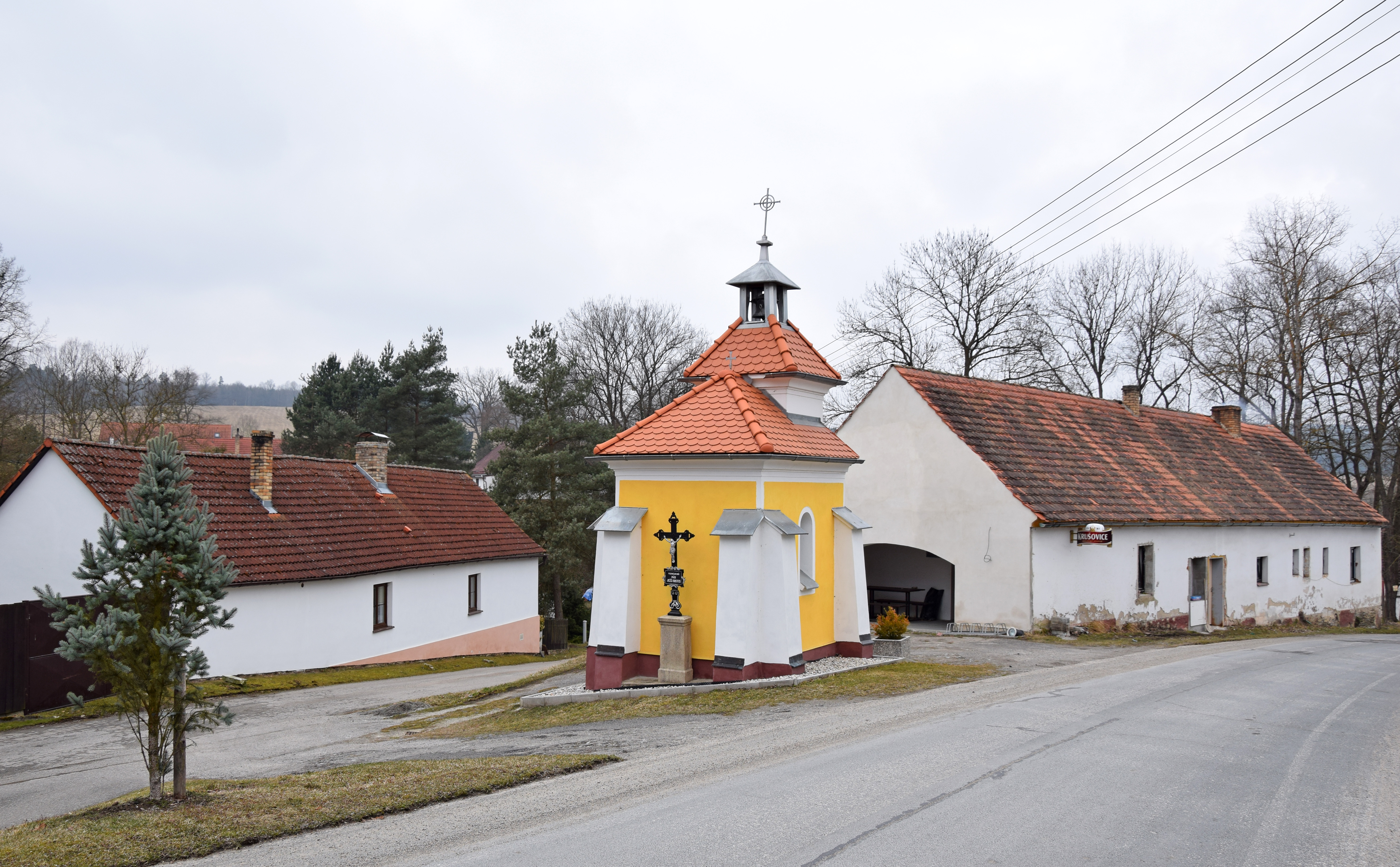 Chapel in the village of Jeznice, České Budějovice District, the Czech Republic.